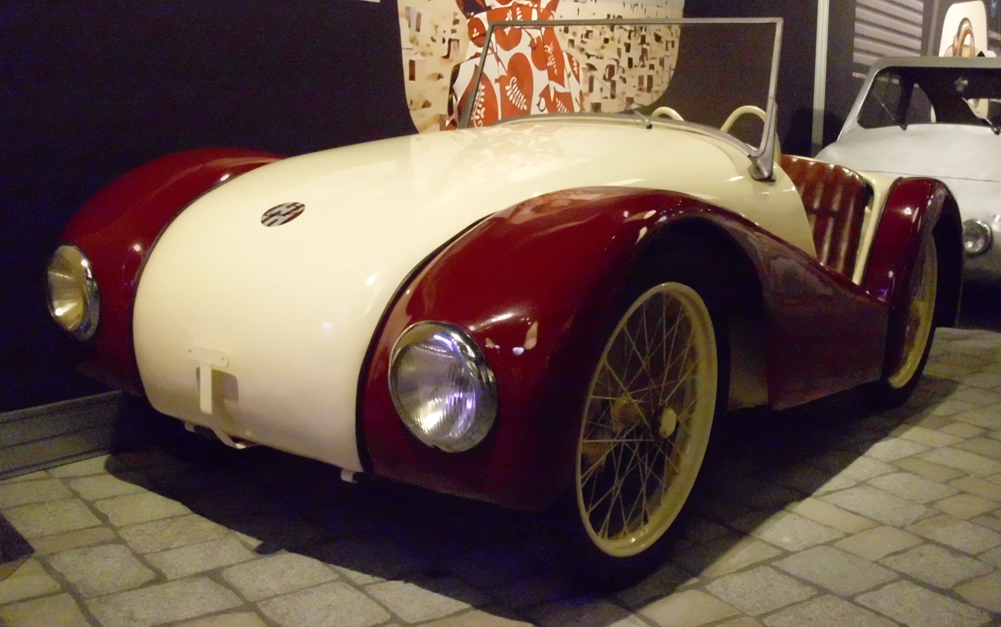 Champion Ch-2 1949-1950